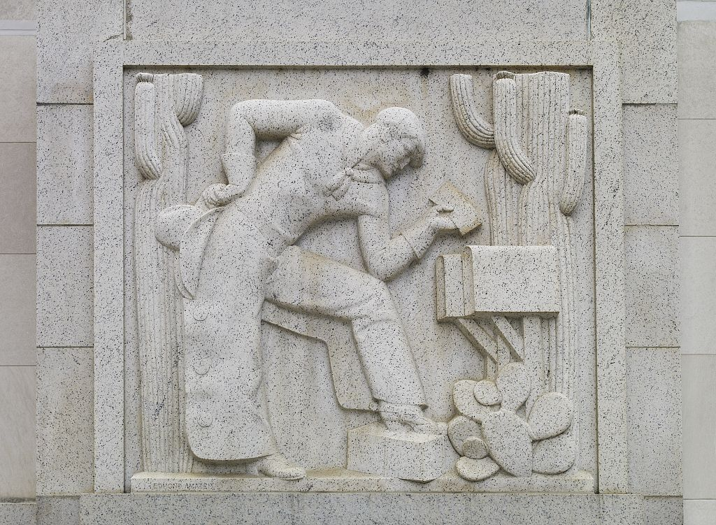 Relief sculture at old US Court House and Post Office Building at 9th and Markets Streets, Market East neighborhood of Center City, Philadelphia, PA. The building is on the NRHP since October 19, 1990. The relief - "Mail Delivery" (West - Cowboy - One of Four) is by Edmond Amateis from 1941, while he worked for the PWA (Progress Works Administration - i.e. the Feds) at U.S. Post Office and Court House. Made from Granite, 108 x 120 in. Owned by the Federal Government via the General Services Administration